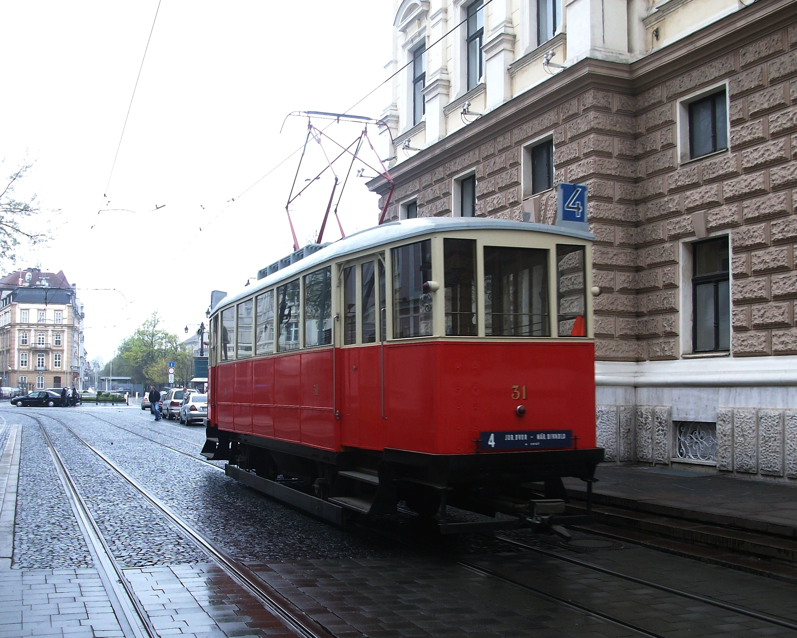 Historical tram, Bratislava